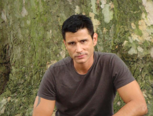 Mykel Hawke